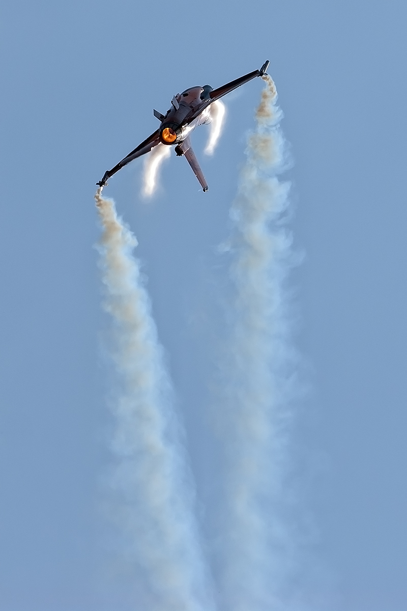 The J-015 during Volkel in de Wolken Hamilton Airshow 2012